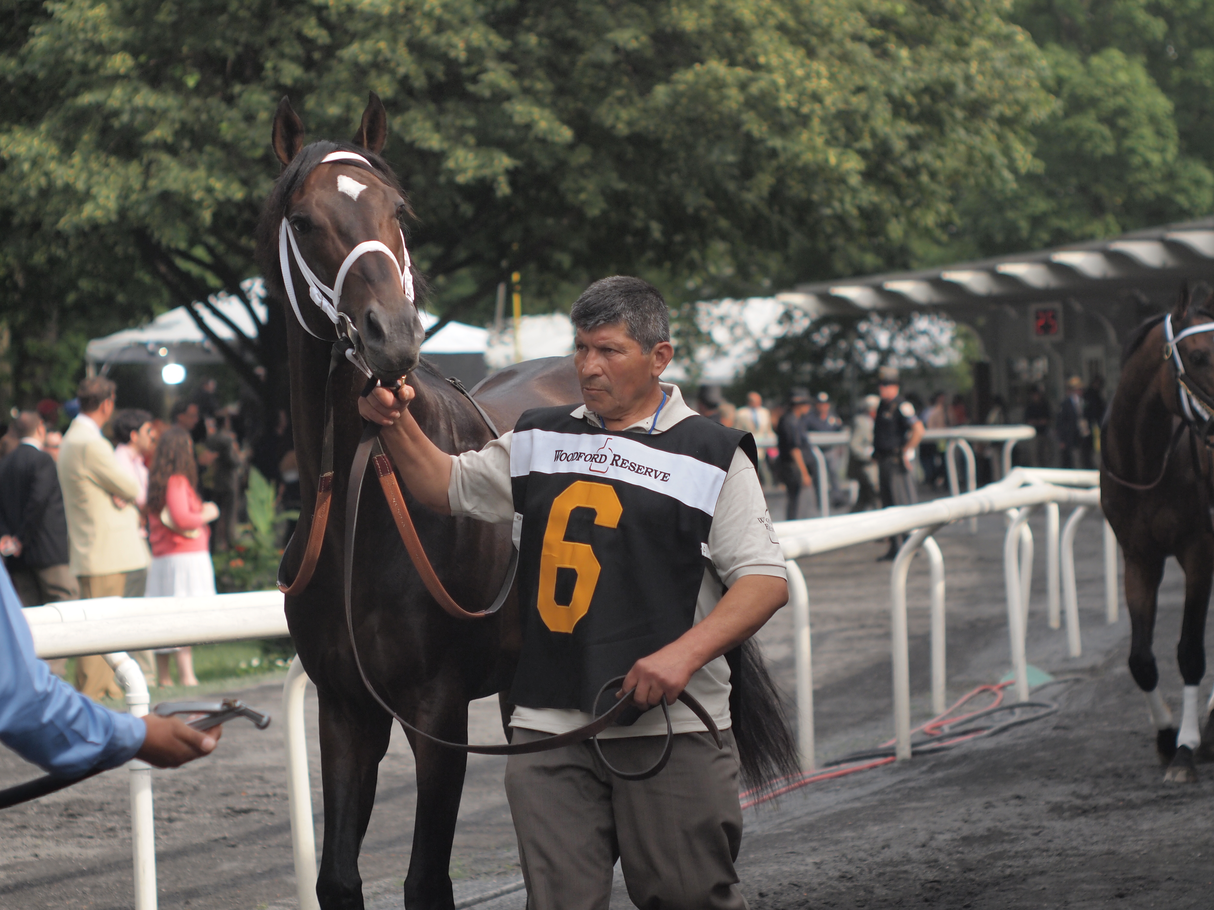 Images taken at Belmont Park on Belmont Stakes day, June 5, 2010